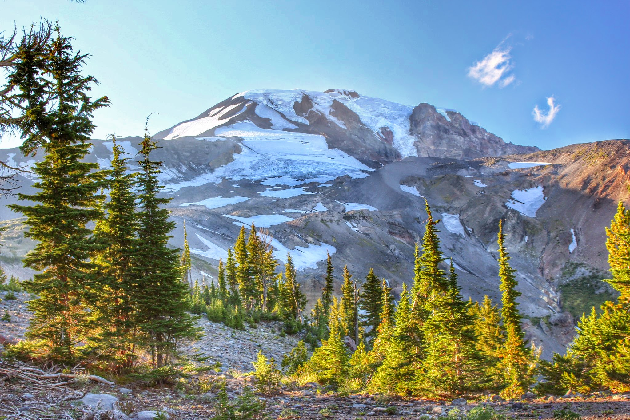 Taken just above the Hellroaring Canyon Overlook, on Trail #20. This is the SE side of the mountain.